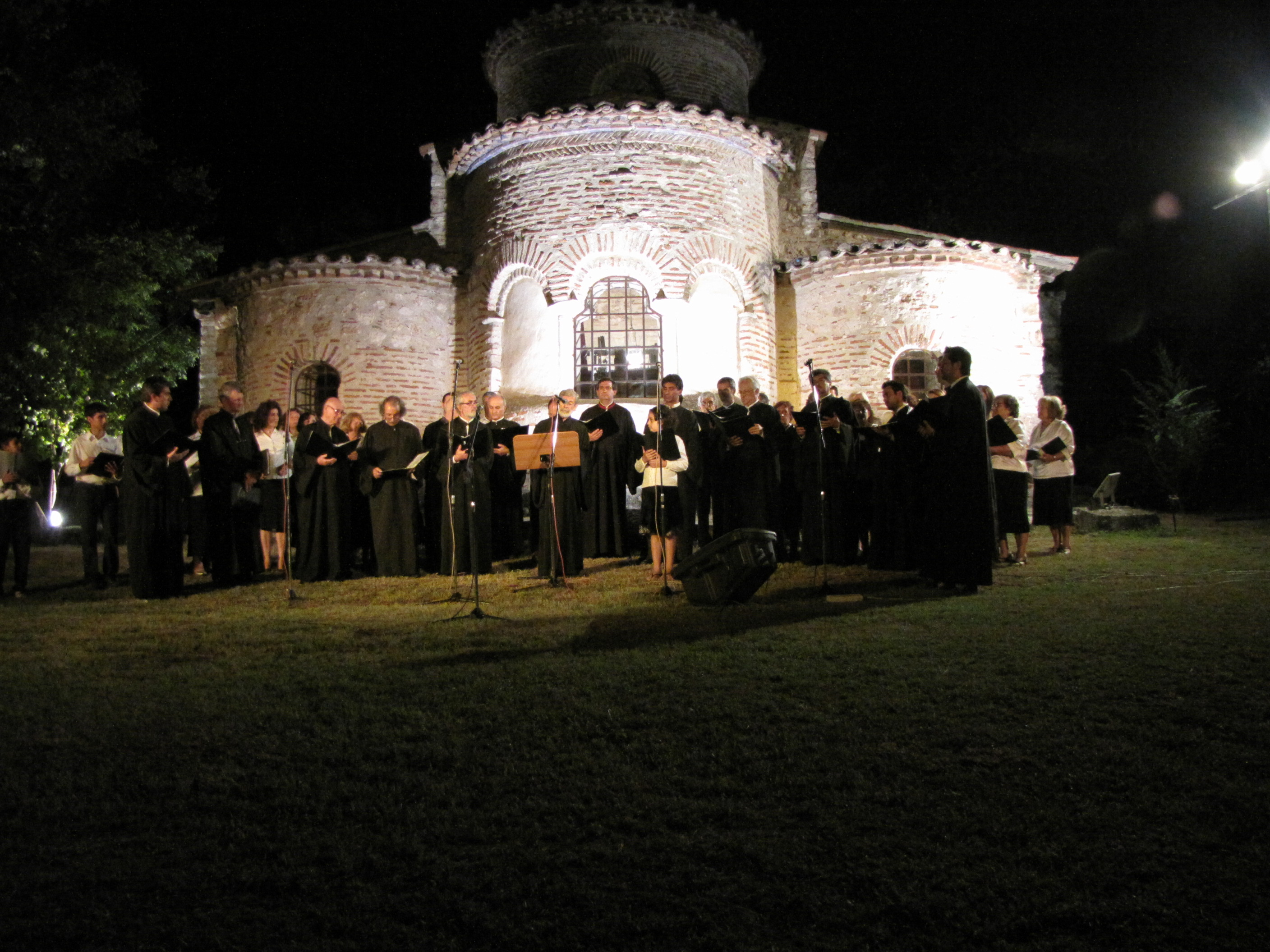 Concert at Kontariotissa